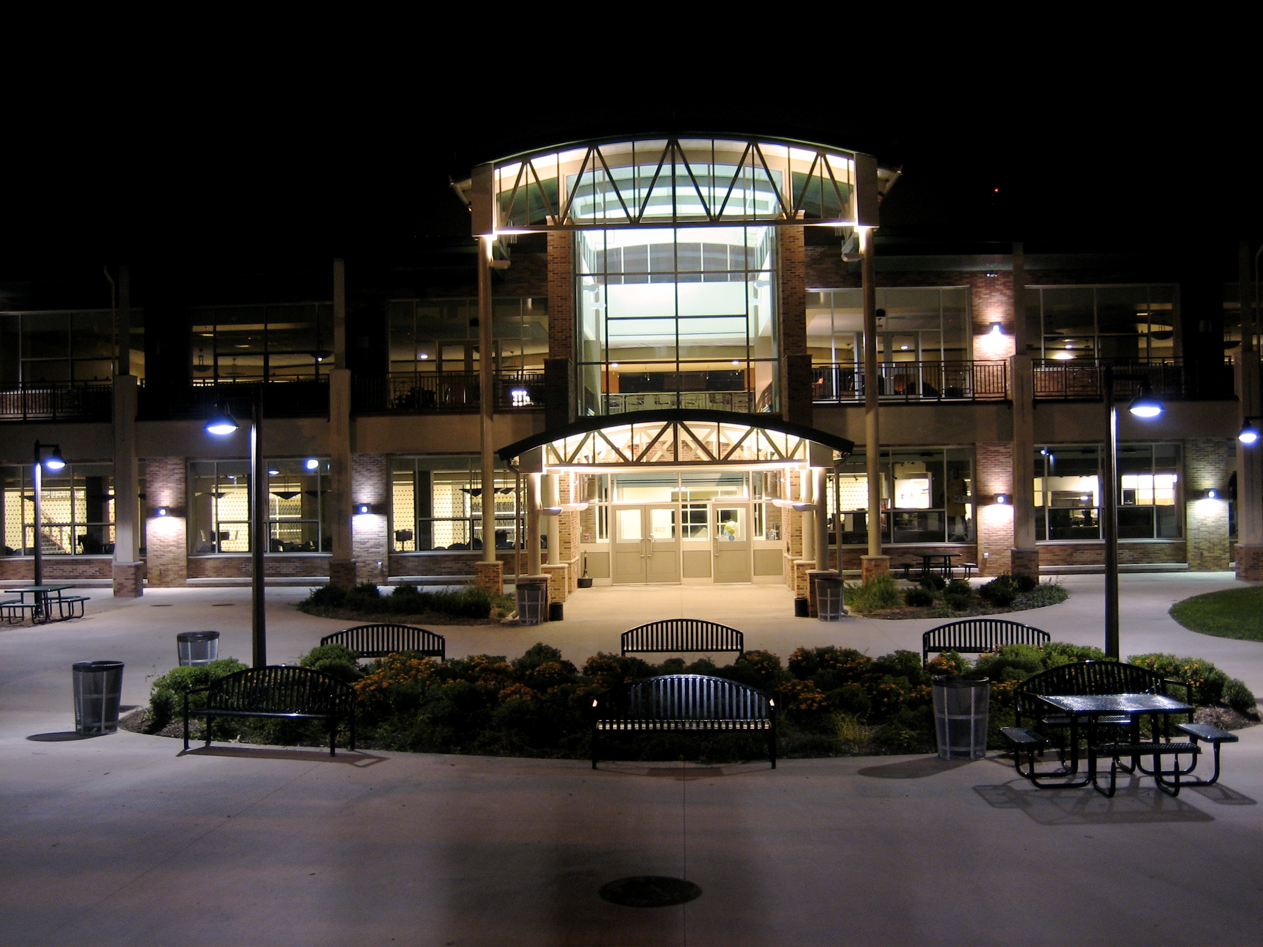 own work